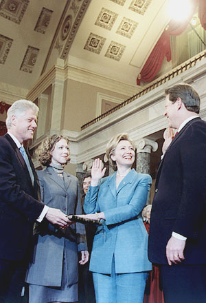 Reenactment of Vice President Al Gore swearing in First Lady Hillary Clinton as a United States Senator in the Old Senate Chamber at the Capitol on January 3, en:2001. Her husband, President Bill Clinton, holds the Bible, as their daughter, Chelsea Clinton, observes.